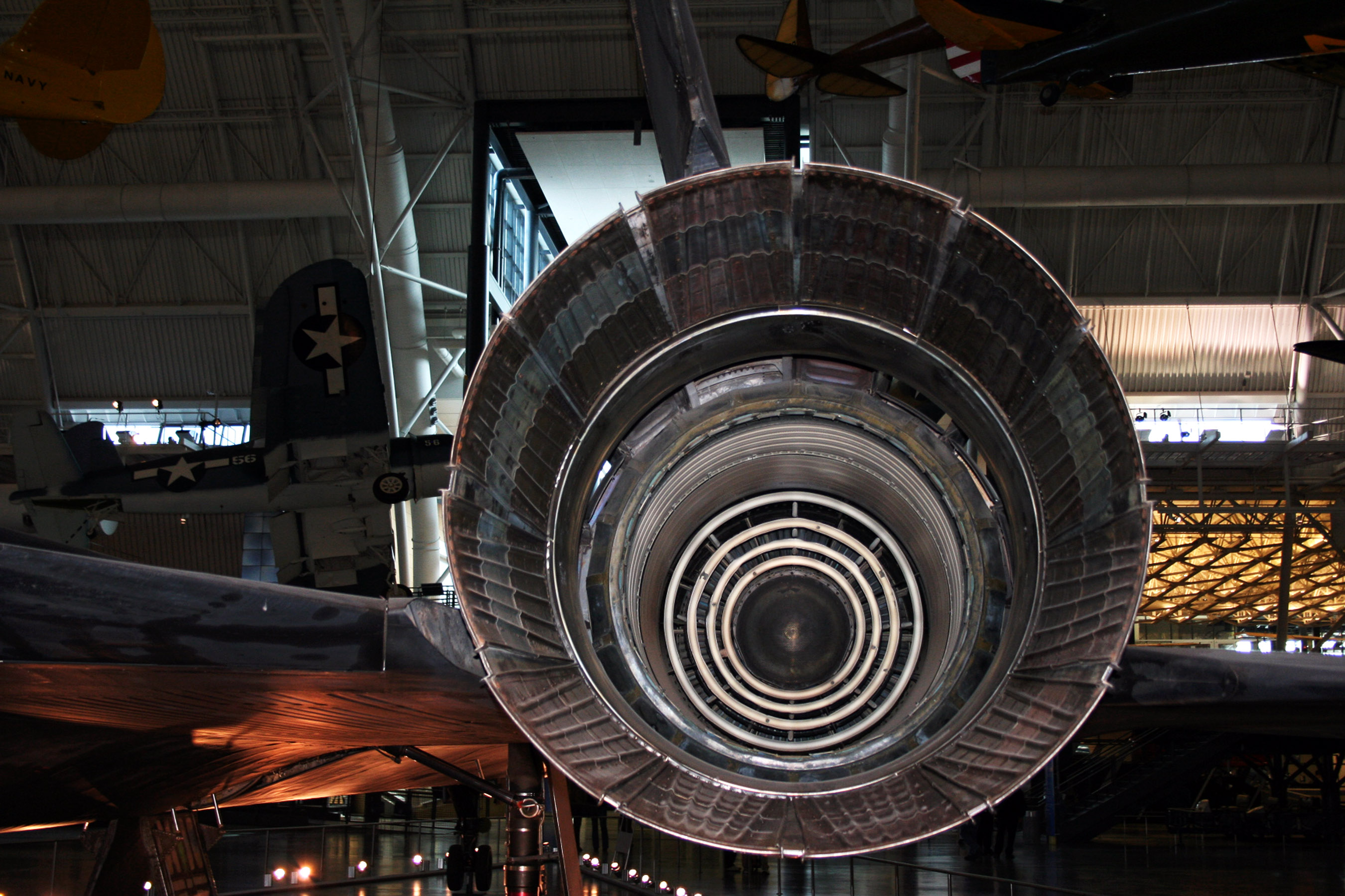 Internal view of a Pratt & Whitney J58 afterburner and exhaust nozzle